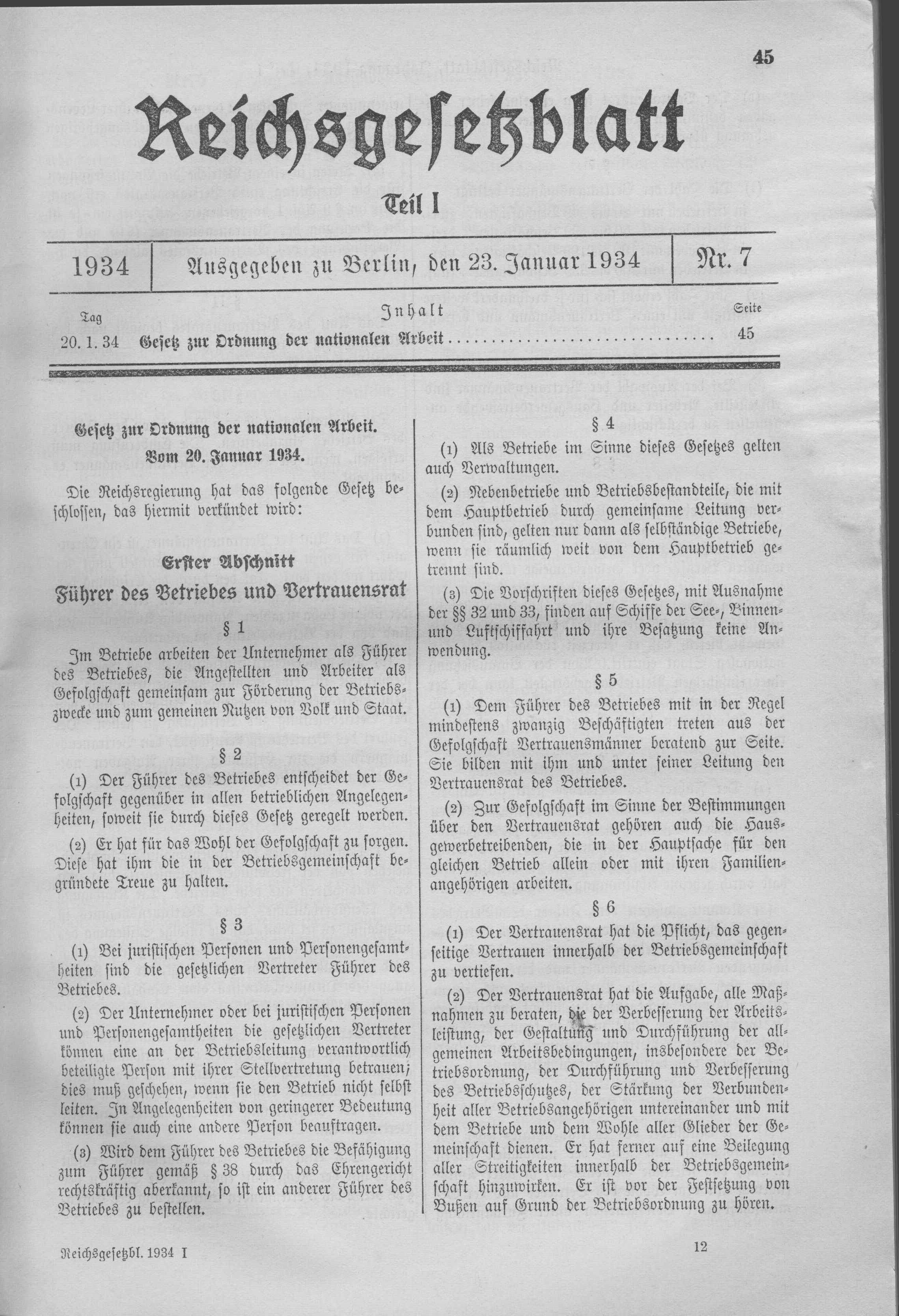 Scan from the Imperial Law Gazette of Germany, 1934, part 1